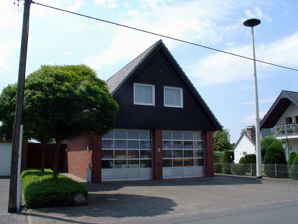 fire department Quenhorn, Herzebrock-Clarholz